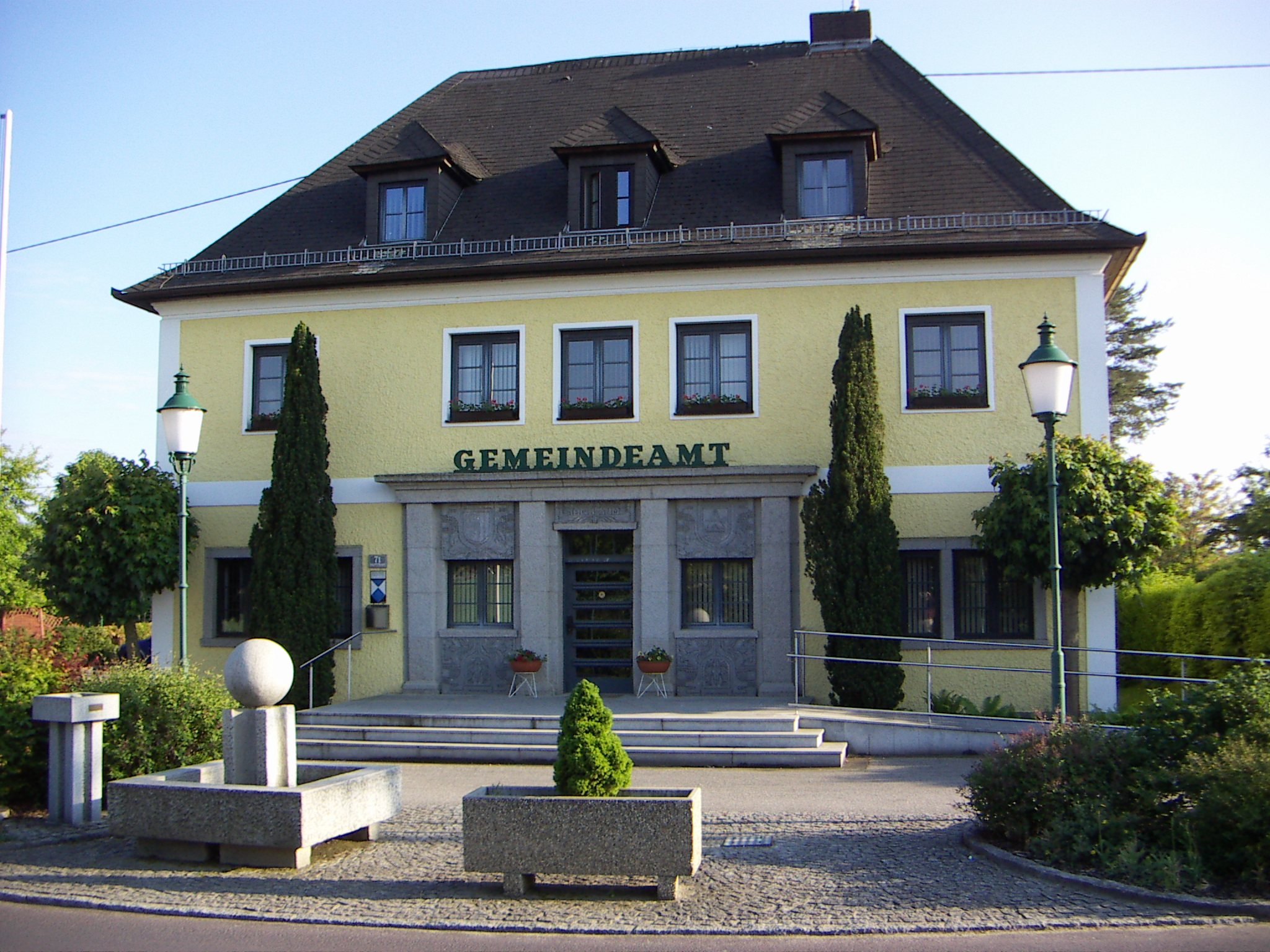 The municipal office of Langenstein, Austria